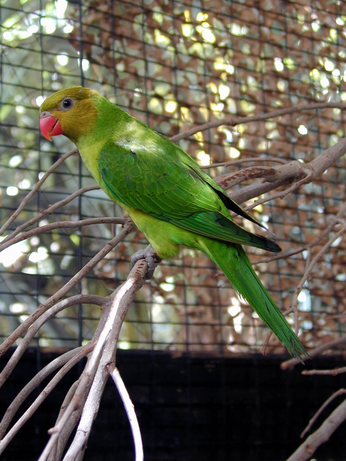 Olive-headed Lorikeet (also called the Perfect Lorikeet).